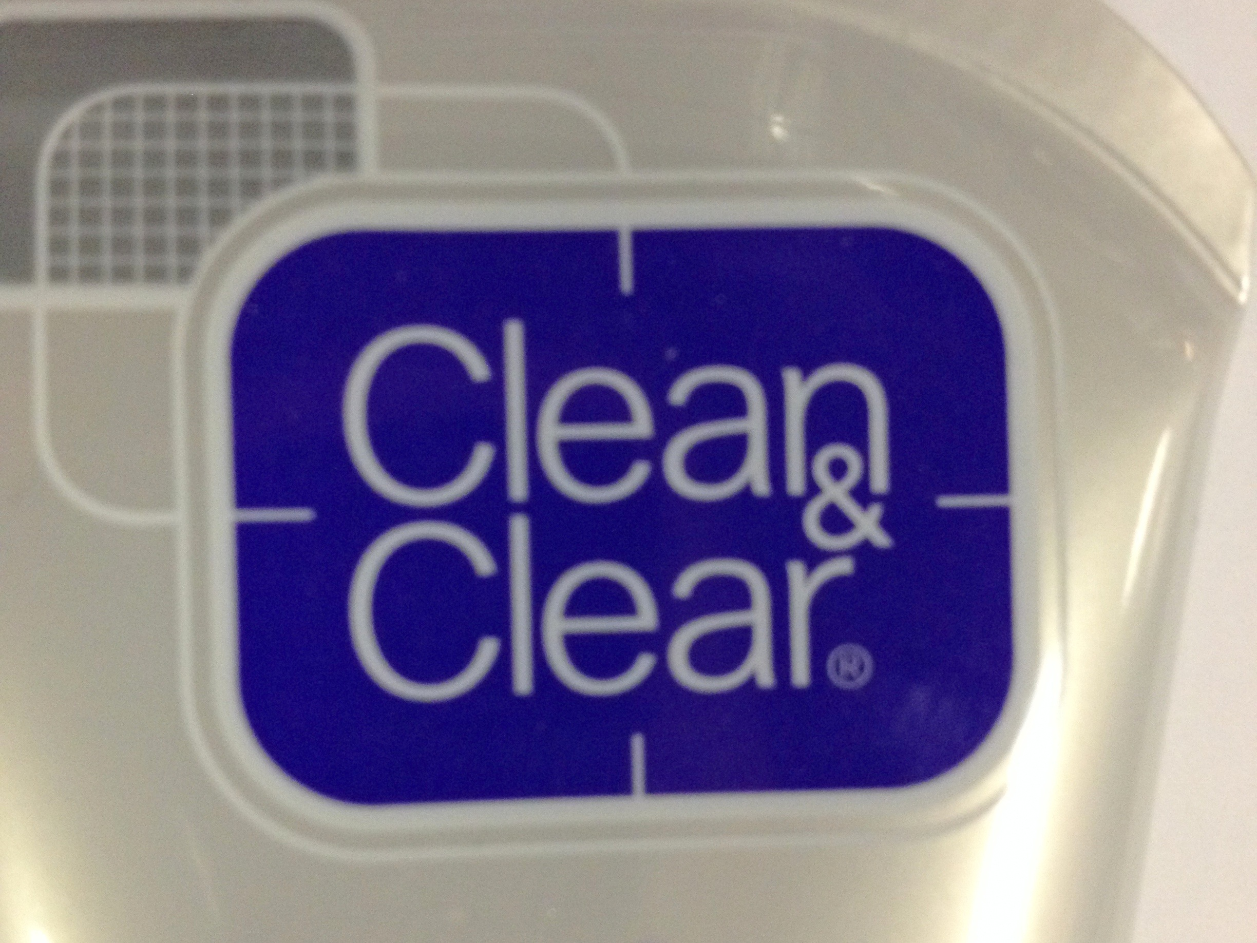 Clean & Clear logo from Advantage gel